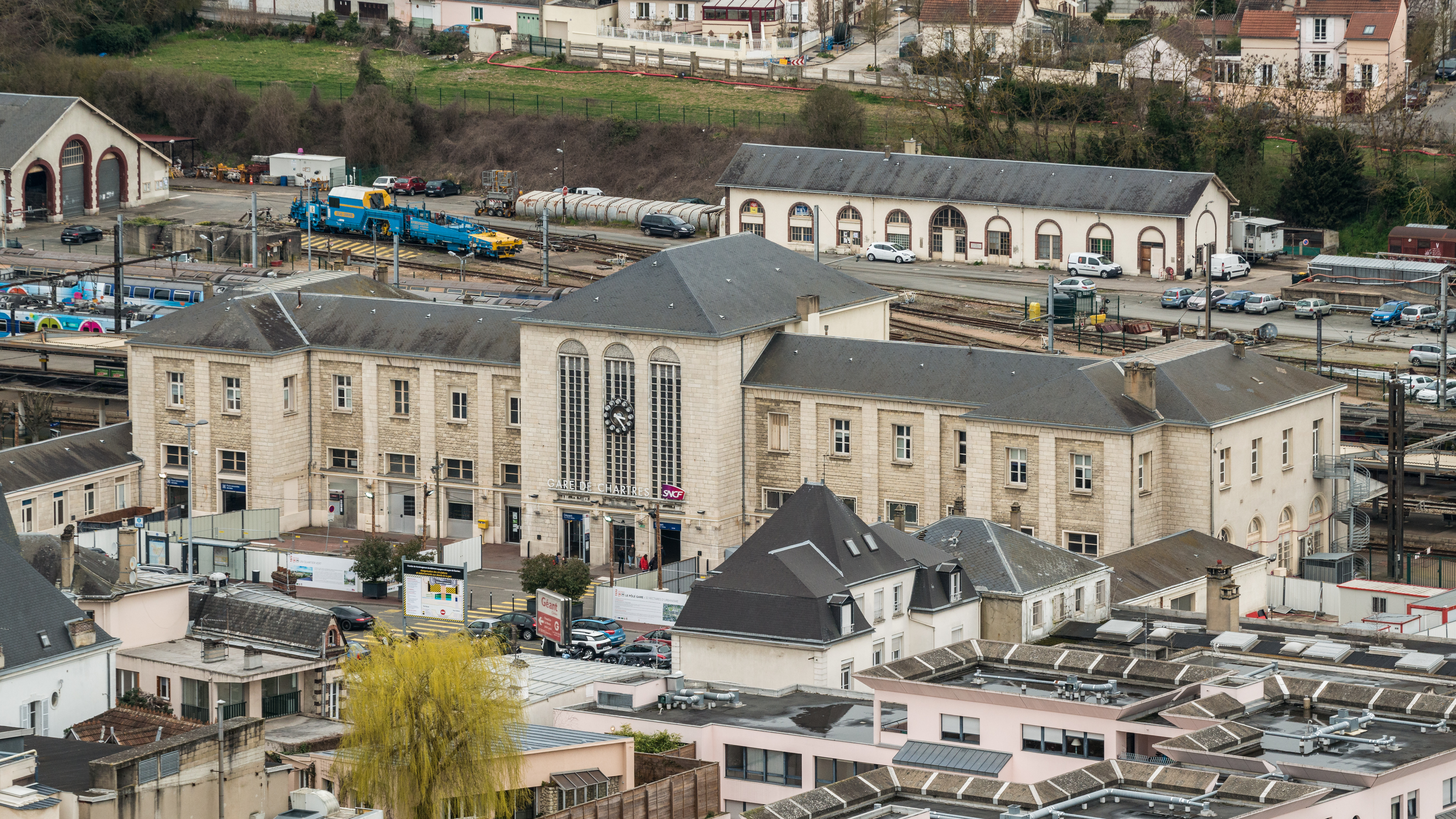 A view of Gare de Chartres, as seen from the towers of Chartres Cathedral